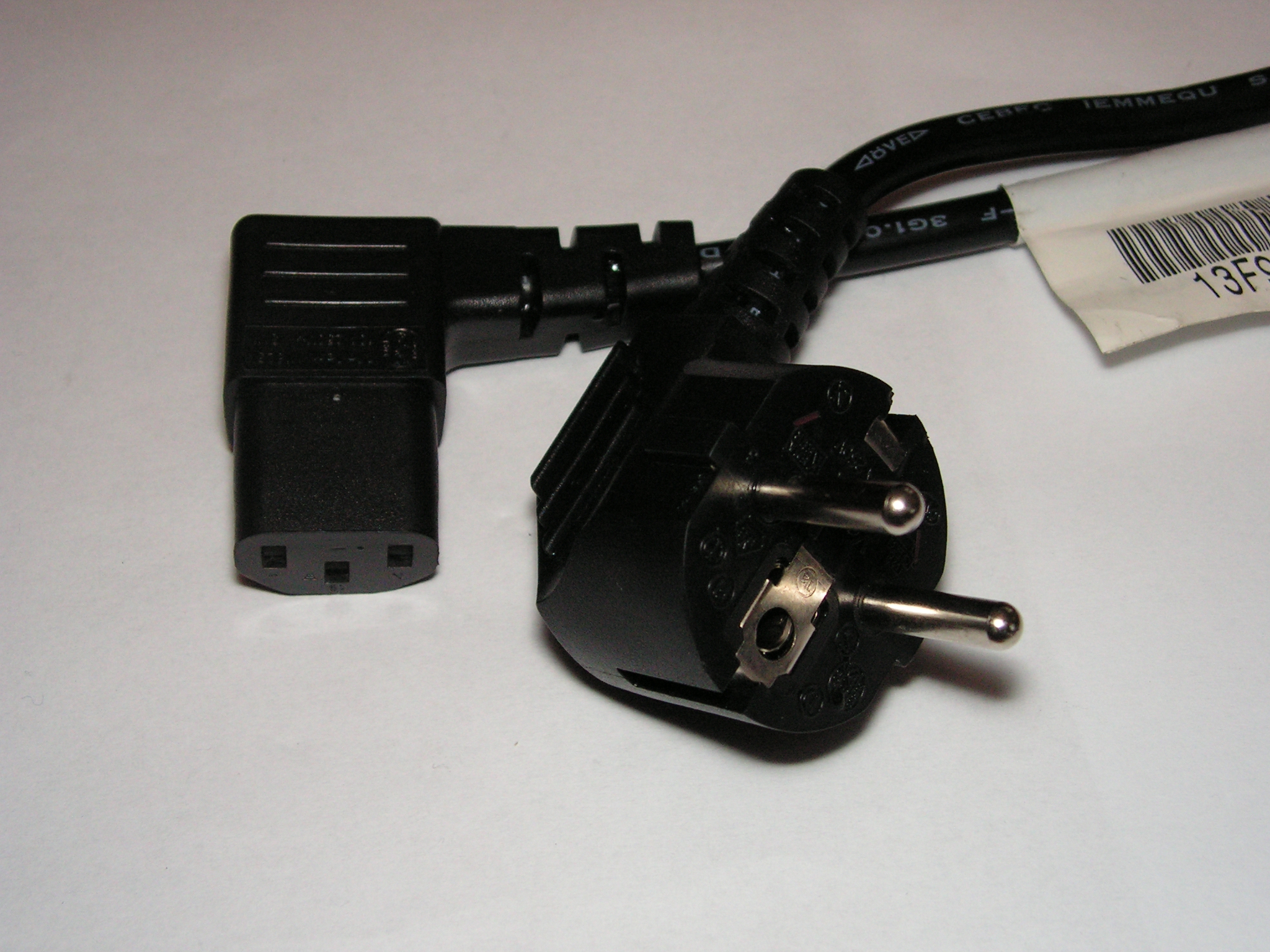 Cable angled IEC C13